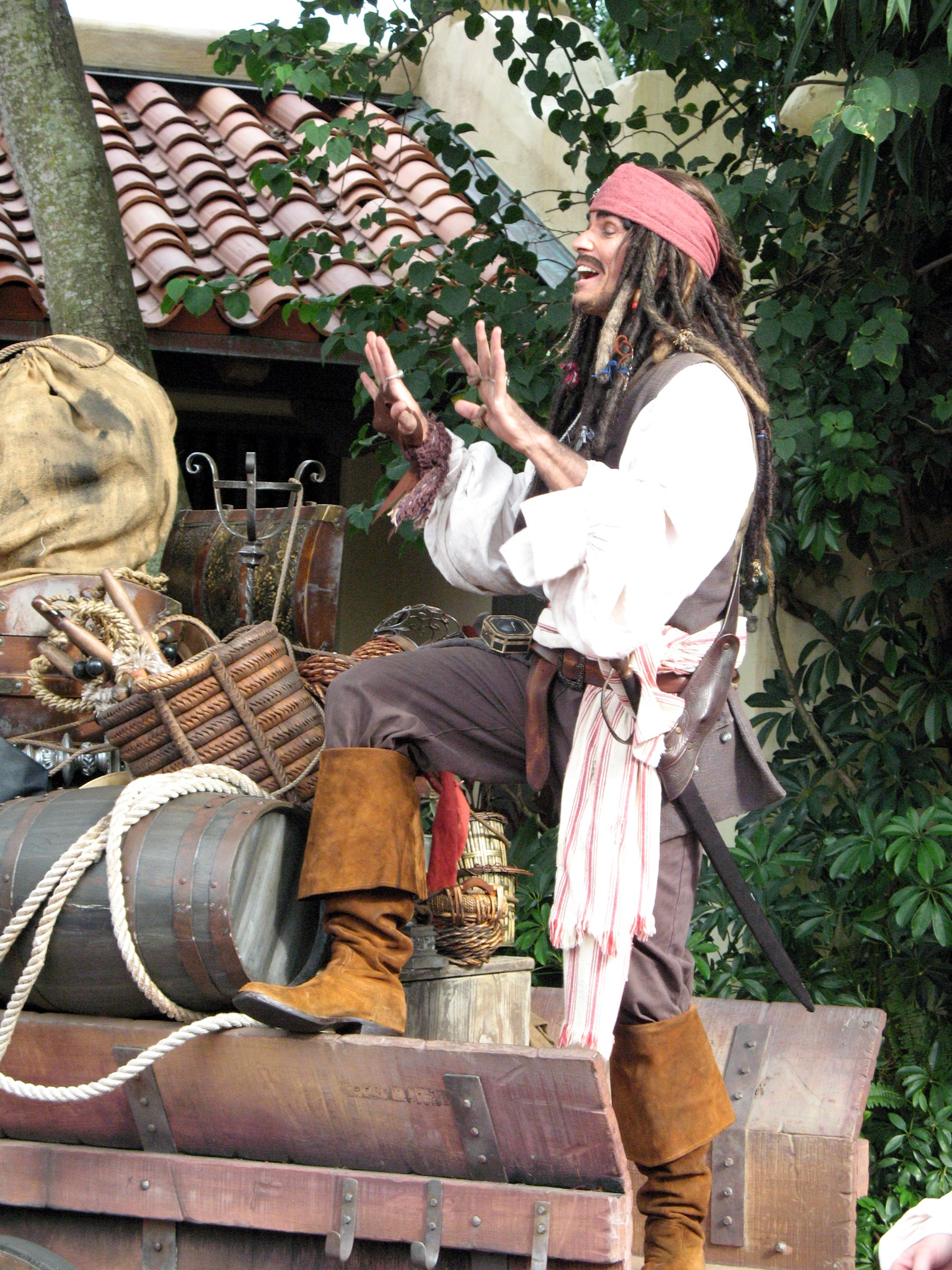 Jack_Sparrow's imitator (Disneyworld: Magic Kingdom, Florida, USA)